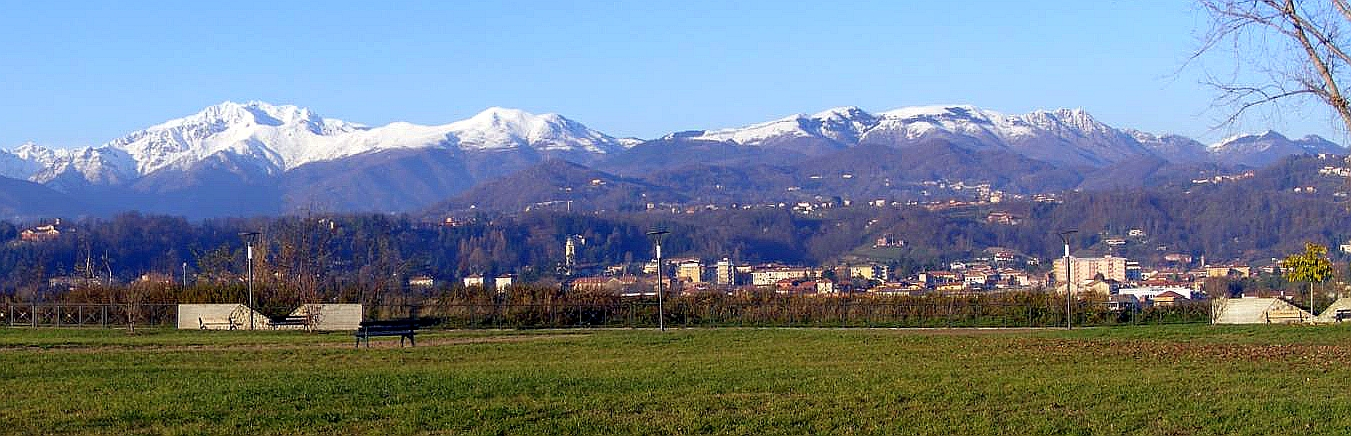 Mountain range Bo-Barone from Biella's skeet shooting field (Italy)